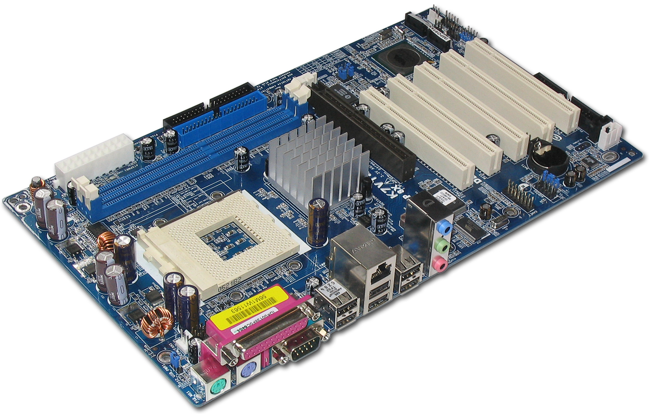 Beschreibung: ASRock K7VT4A Pro - Mainboard / Motherboard / Hauptplatine / VIA KT400A chipset Fotograf: File:ASRock_K7VT4A_Pro_Mainboard.jpg?action=edit&uselang=de, 22. Juli 2005